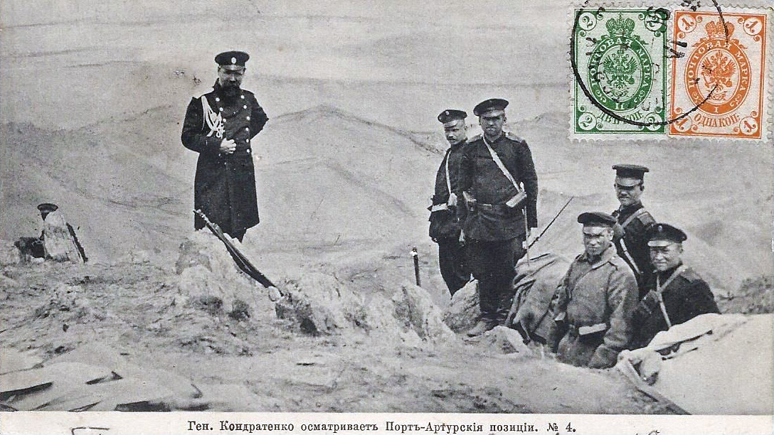 Open Letter (Carta Postale) with view of siege of Port Arthur (1904) - General Roman Kondratenko checking positions